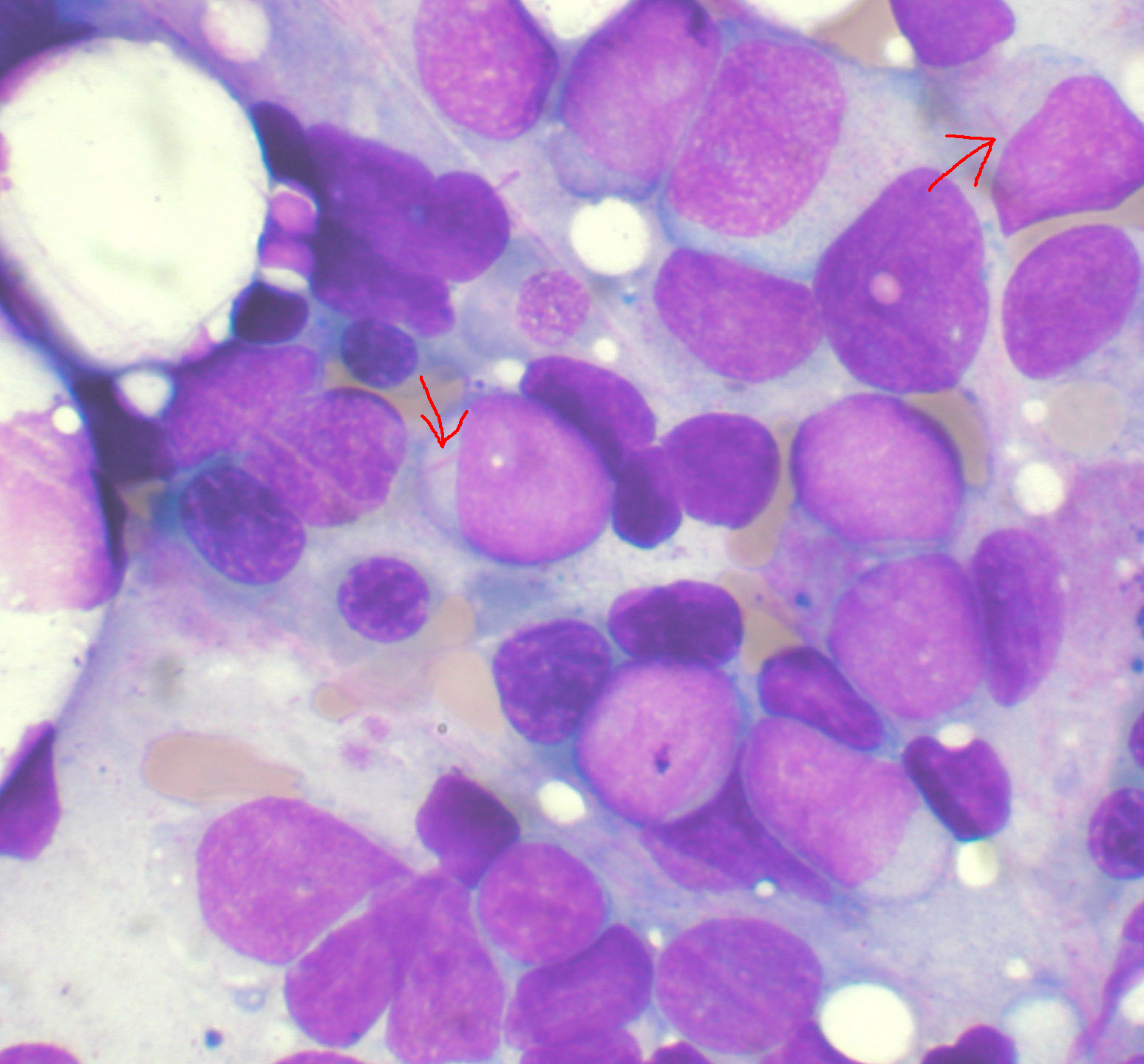 Bone marrow aspirate showing acute myeloid leukemia. Several blasts have Auer rods.